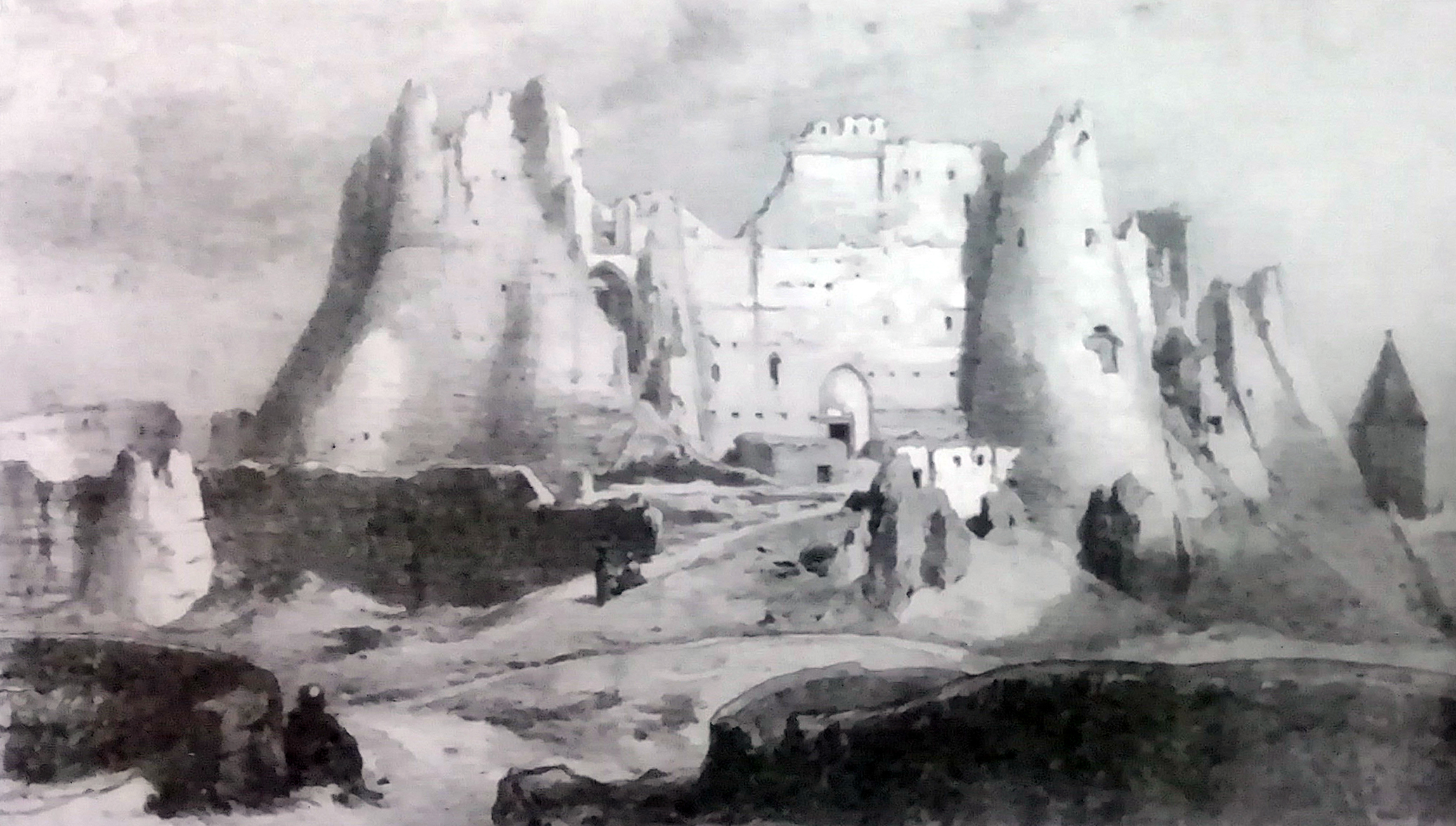 Citadel of Varamin which is not around anymore was painted by French painter, Jules Lurens in 1848.